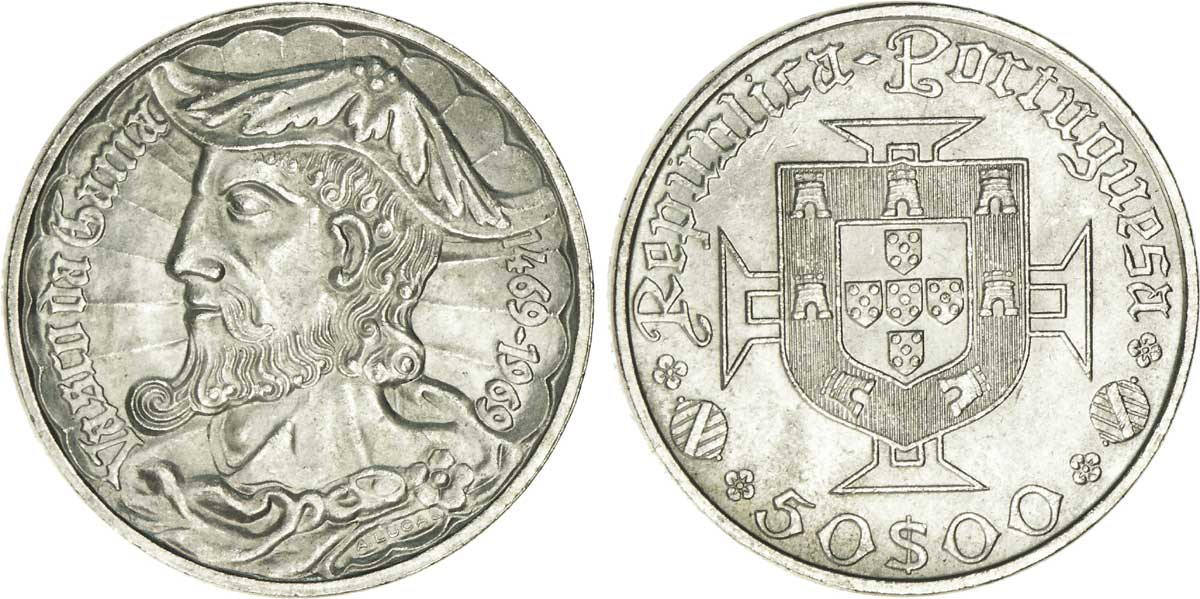 50 Escudos célébrant le 500e anniversaire de la naissance de Vasco Da Gama, 1969